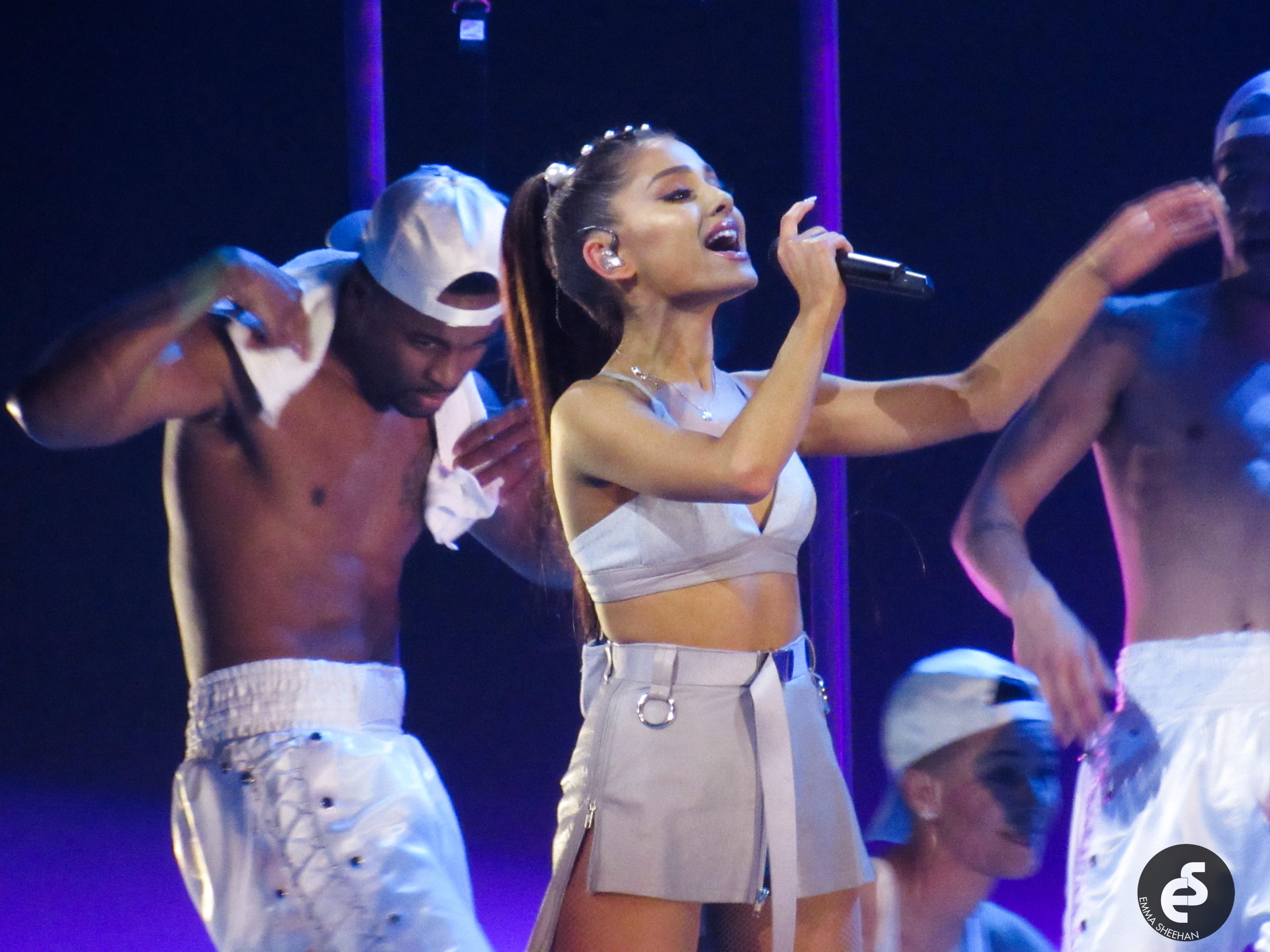 Dangerous Woman Tour 2/19/17 Ariana Grande performing during Dangerous Woman Tour in Manchester, New Hampshire, SNHU Arena, on February 19, 2017.